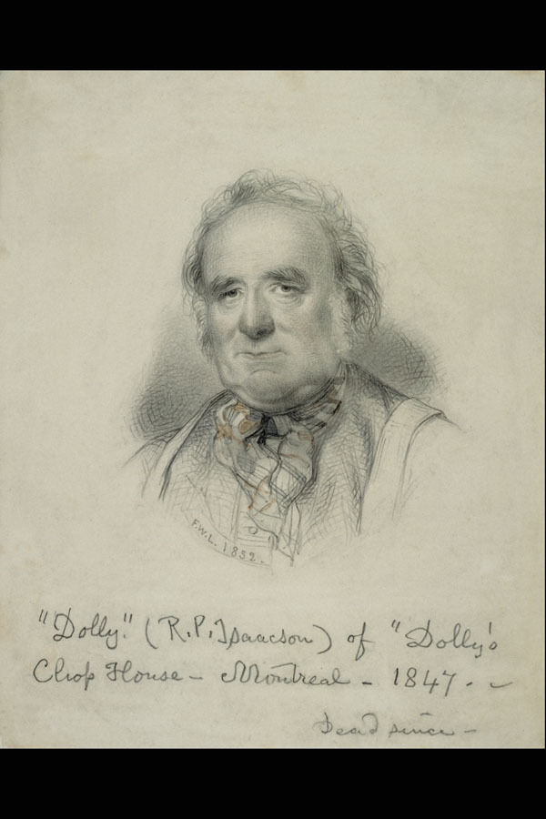 Print of a Portrait by Frederick William Lock, Montreal 1847. Pencil with red and blue wash on wove paper. Inscription: in pencil, recto, b.: F.W.L. [in monogram] 1852 Script below image: "Dolly" (R. P. Isaacson) of "Dolly's Chop House - Montreal - 1847- dead since - In pencil, verso, c.: "Dolly" / of the "Chop House" / Montreal -. / Dead.